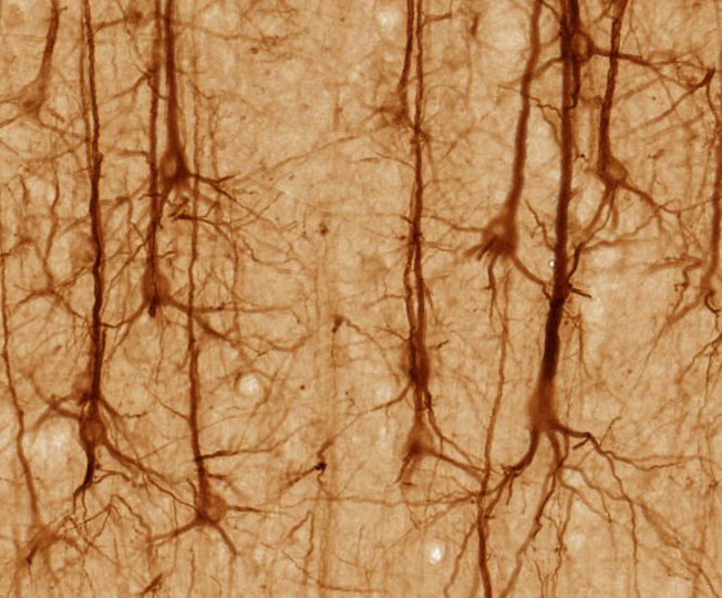 SMI32-stained pyramidal neurons in cerebral cortex.